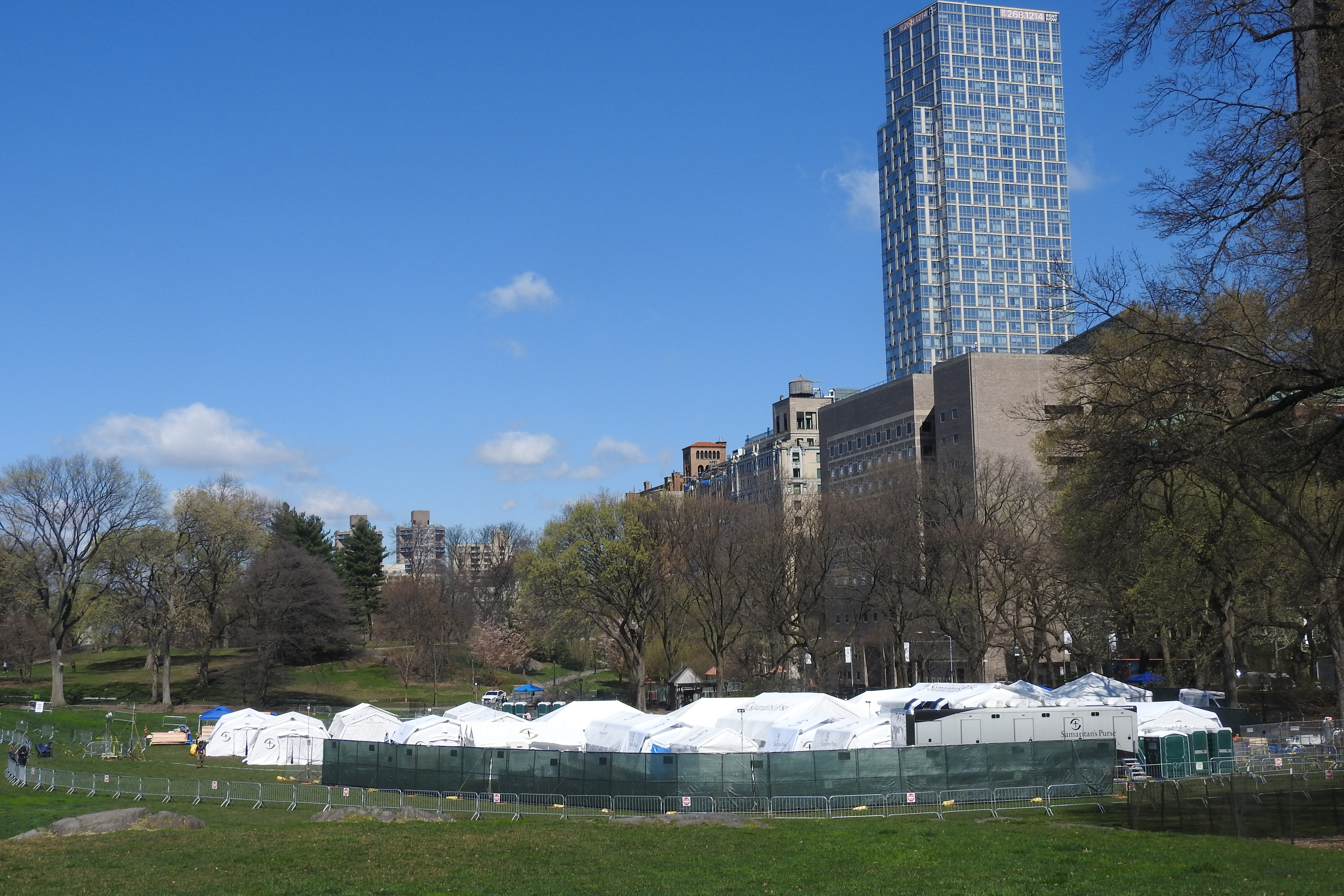 Looking northeast at emergency hospital in Central Park